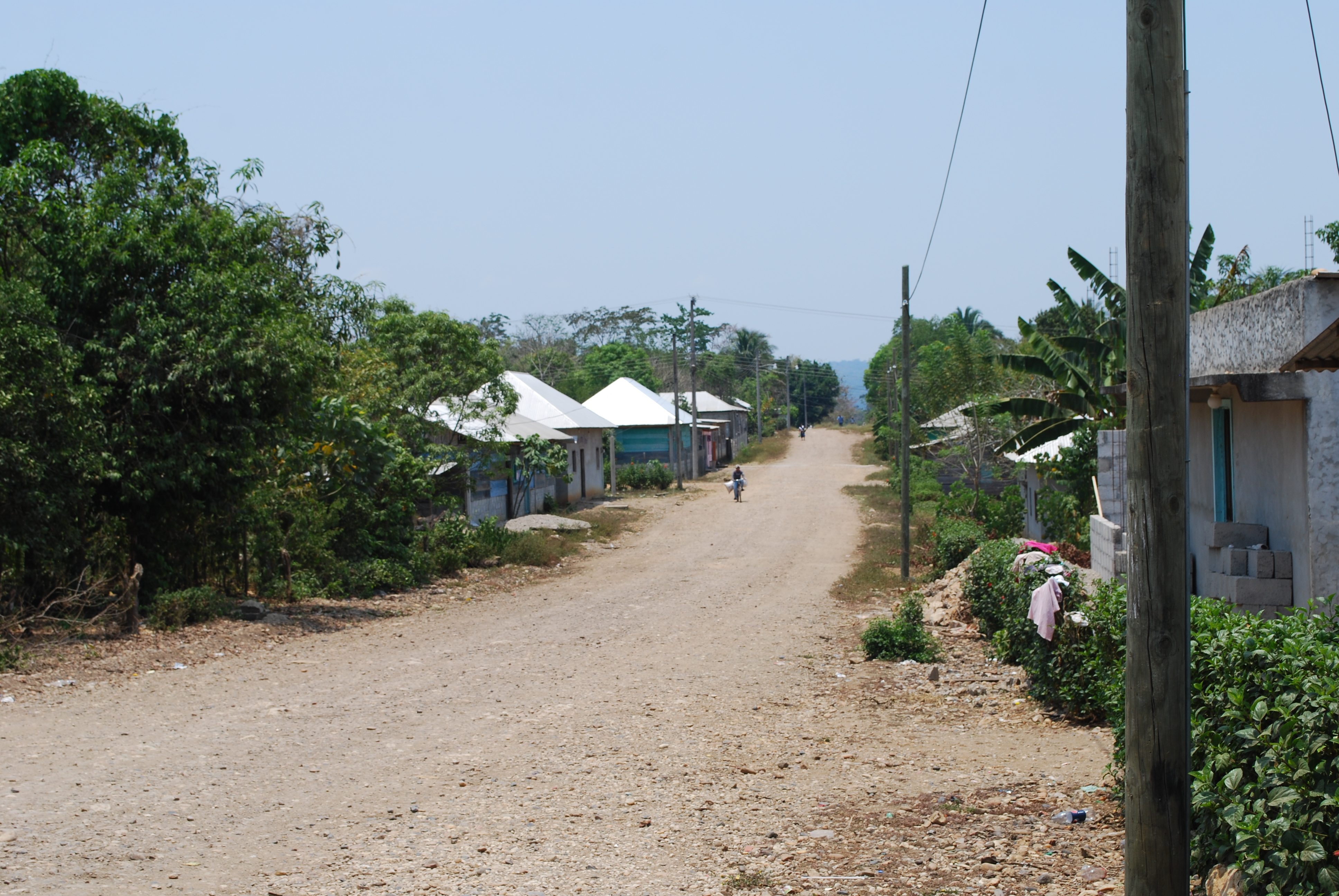 Dirt Street in Frontera Corozal, Ocosingo, Chiapas, Mexico